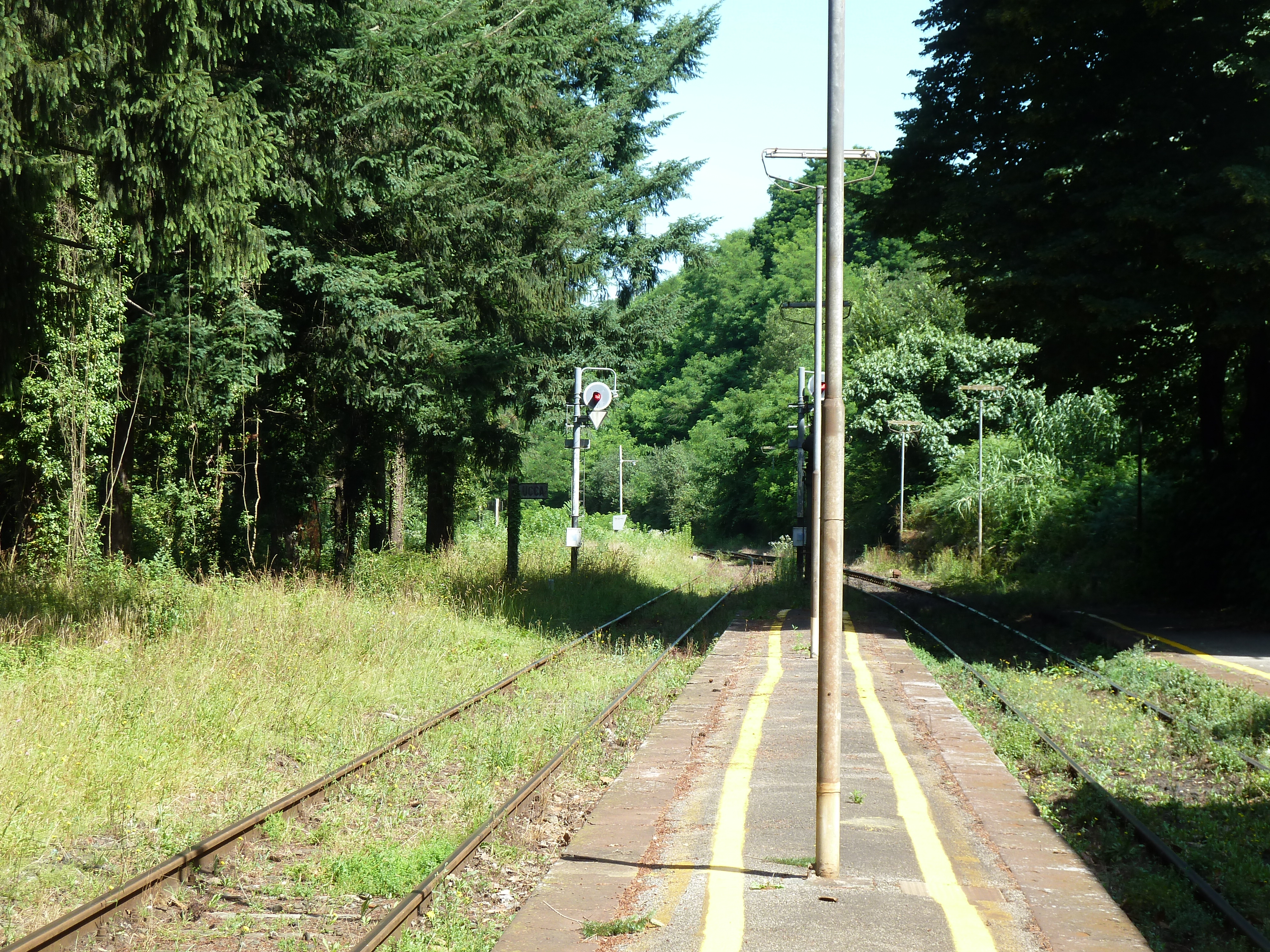 Bagni di Lucca, Italy June 2015